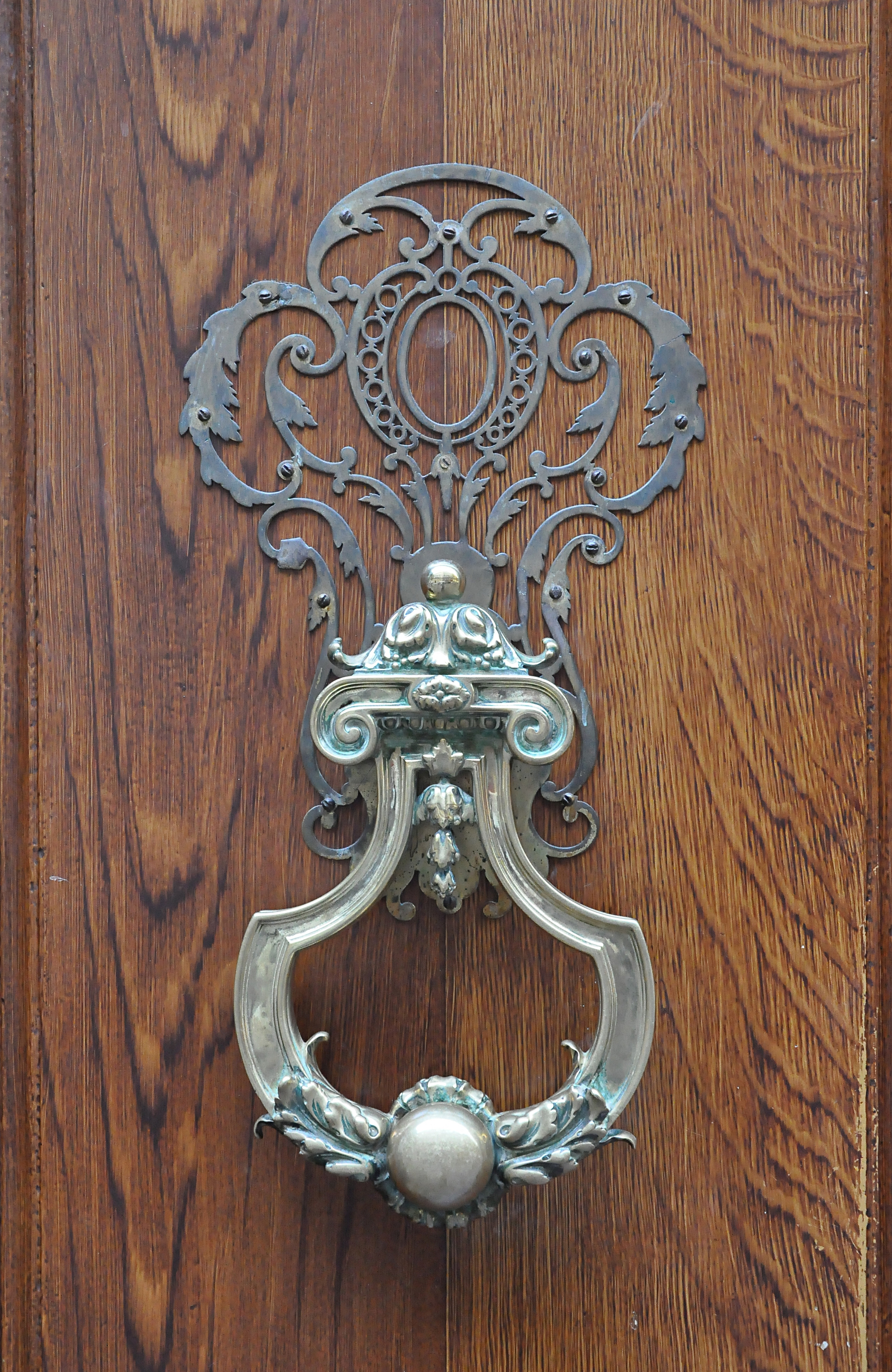 Door knocker at 21 rue Béranger in Paris 3rd arrondissement, France.